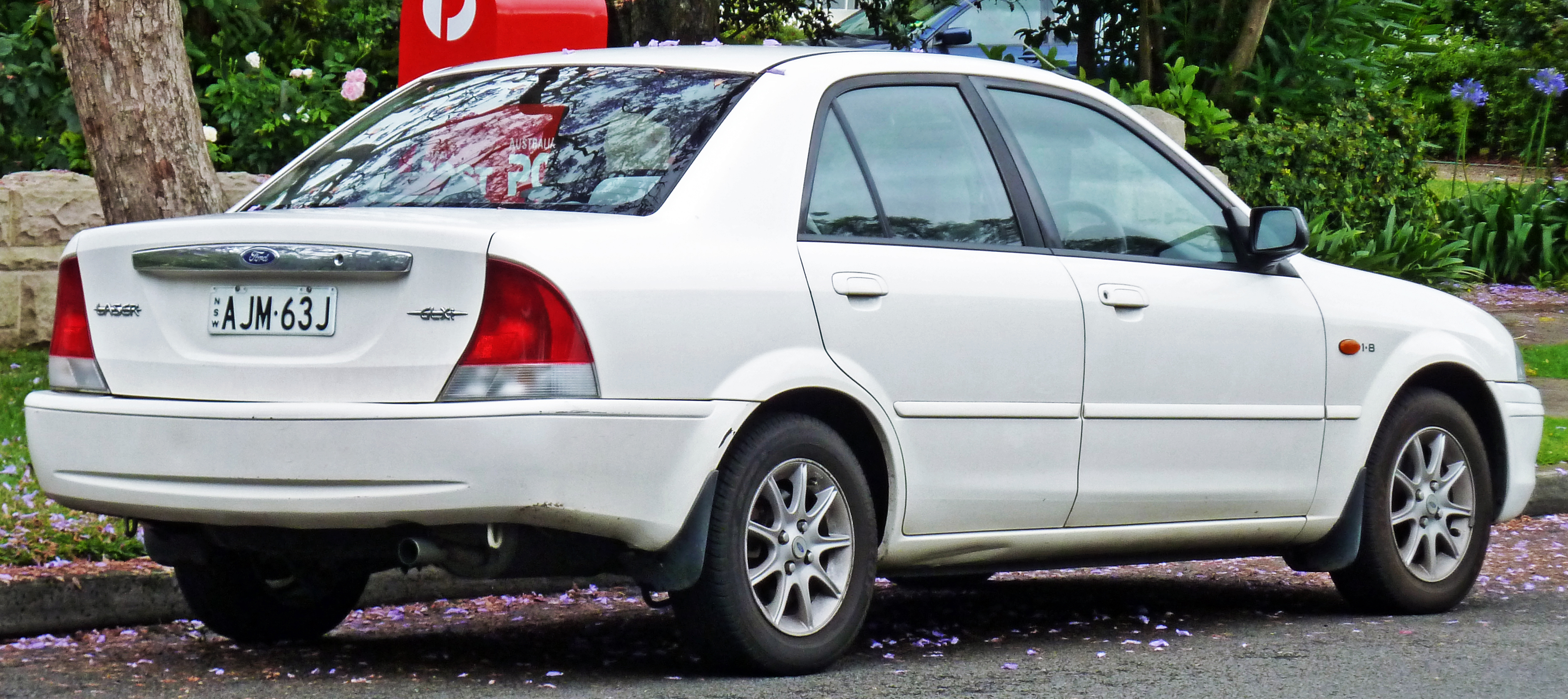 1999–2001 Ford Laser (KN) GLXi sedan. Photographed in Lindfield, New South Wales, Australia.